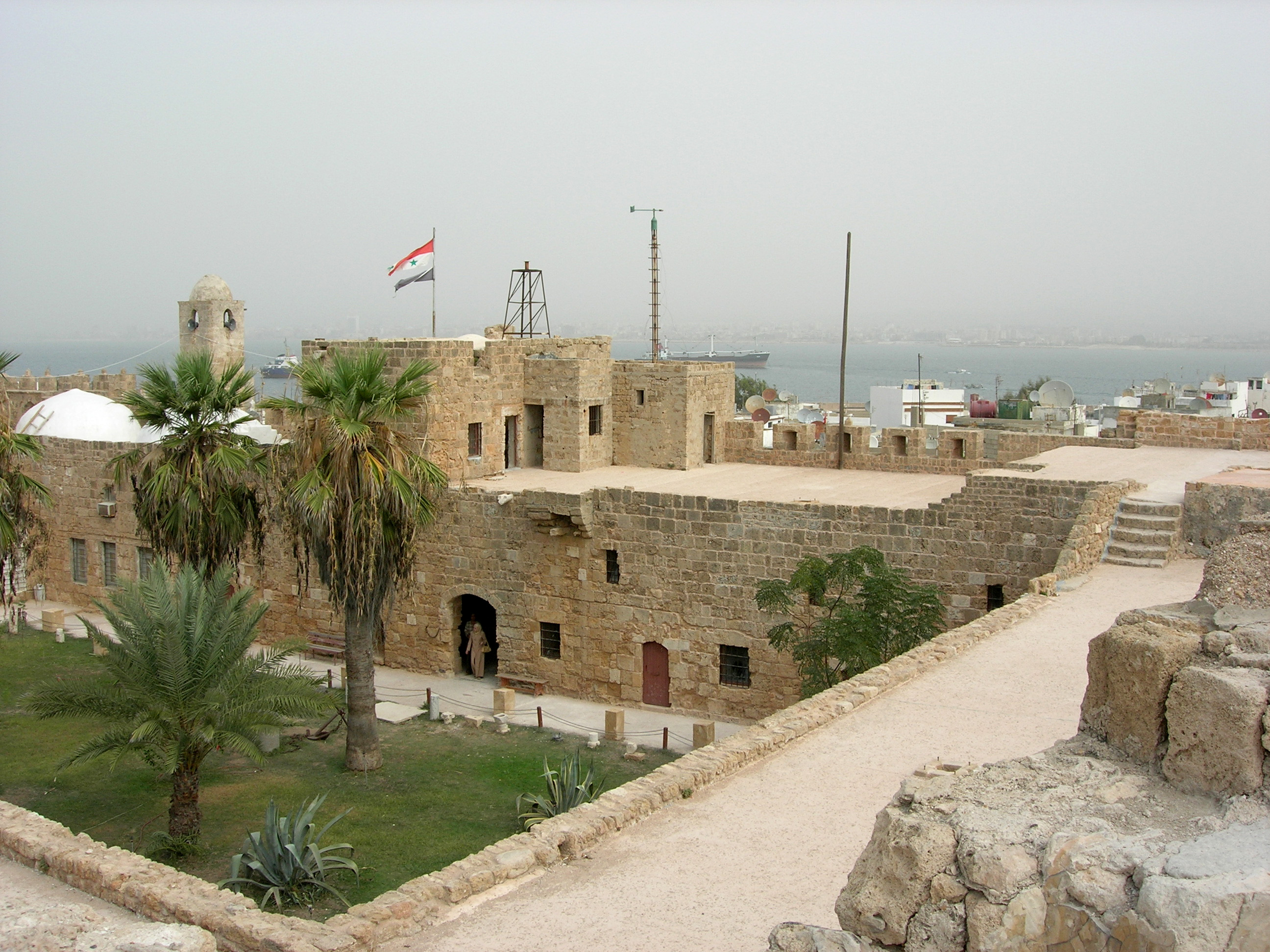 Arwad Castle 阿瓦德古堡